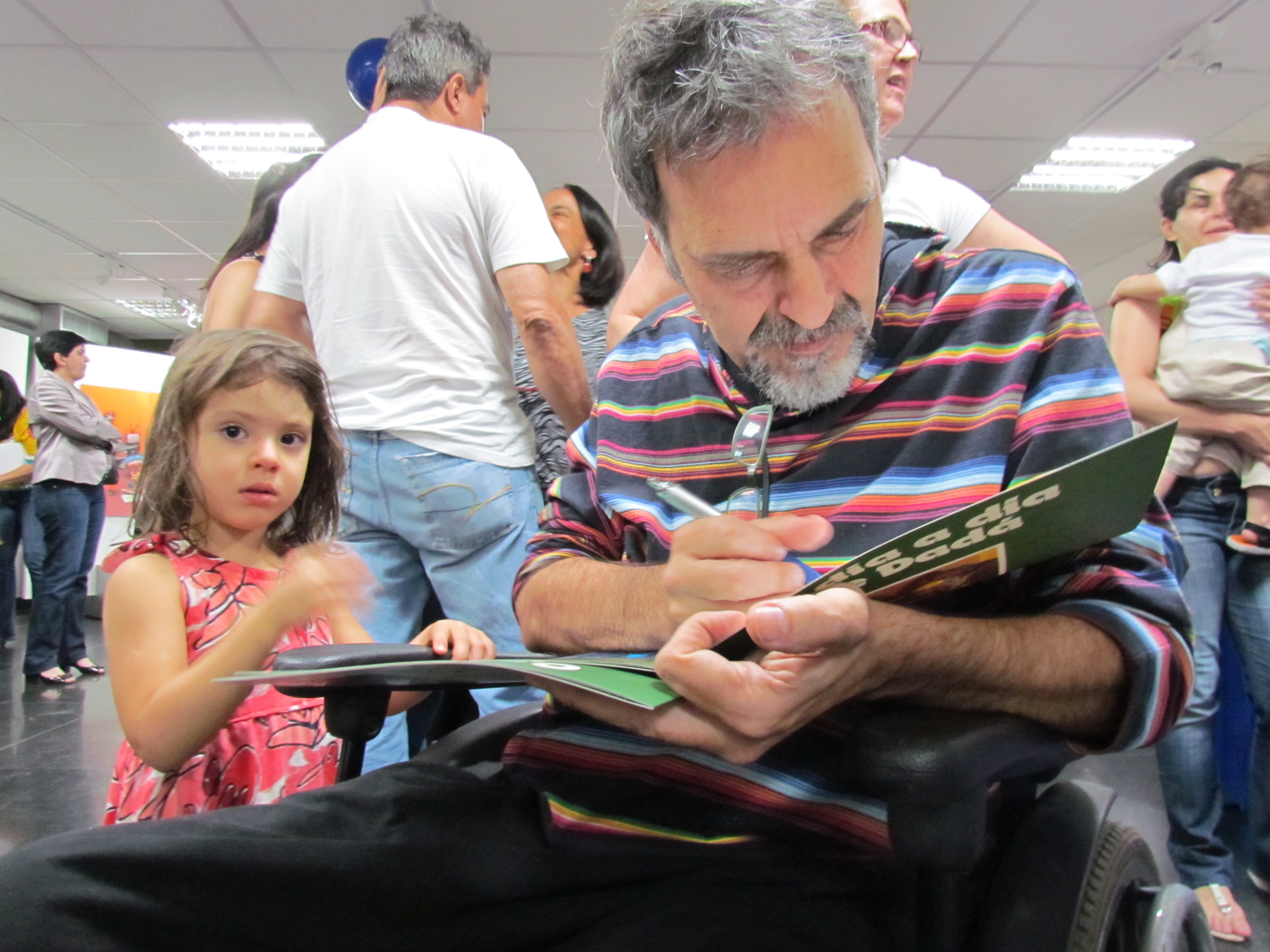 Artist, writer, set designer, costume designer, children's book author Marcelo Xavier autographing his book "The day to day Dada".